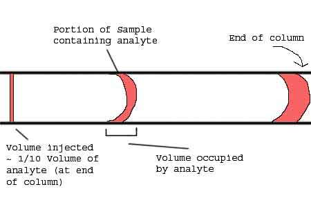 I made this myself in 10 minutes with Photoshop